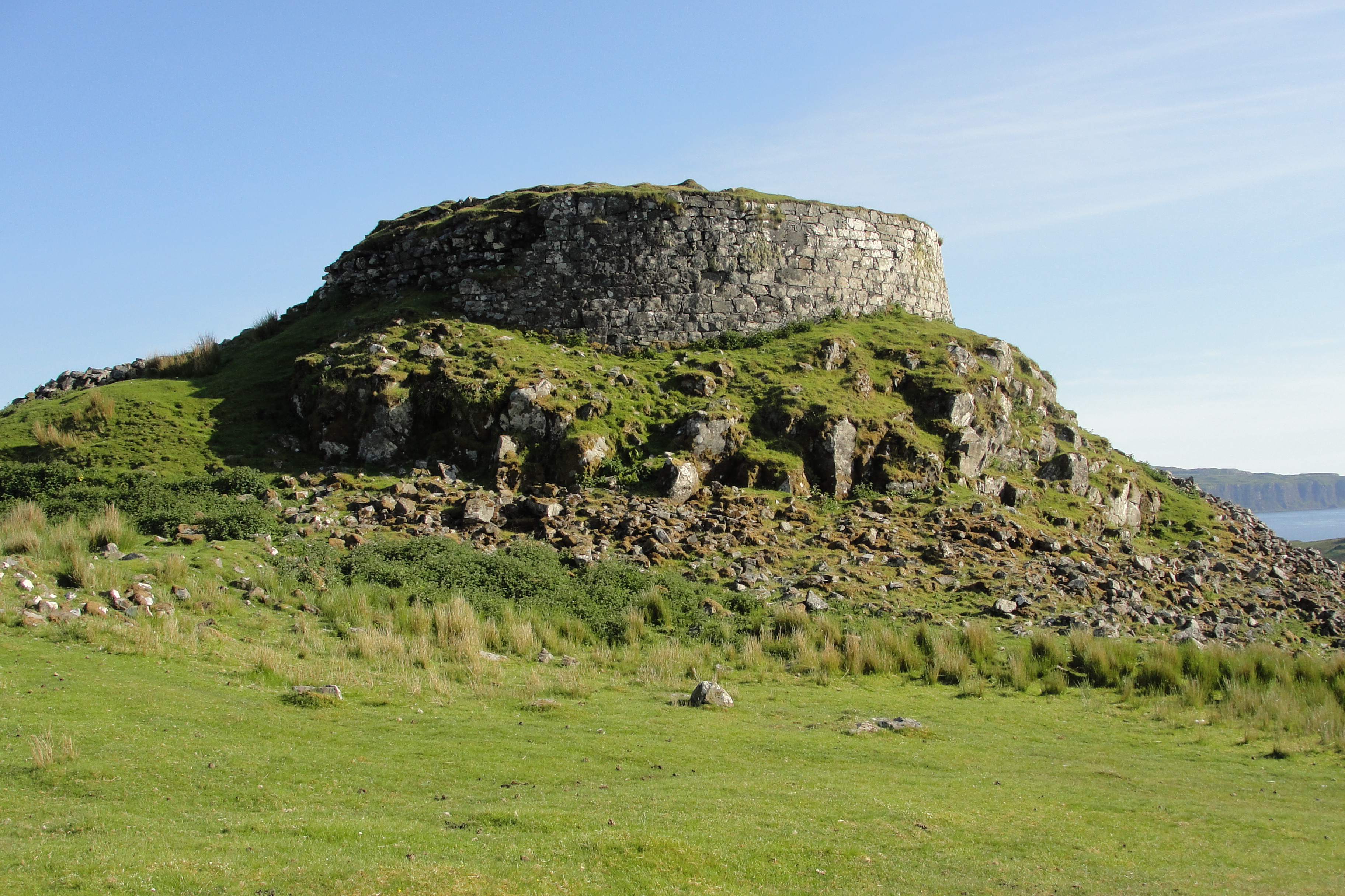 View from the path